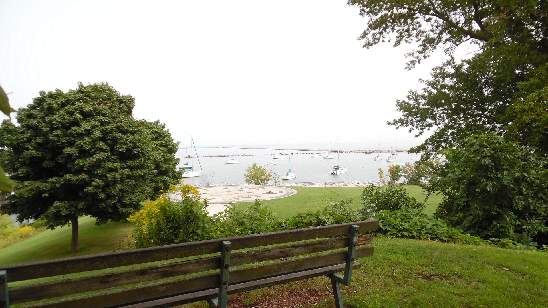 View of Lake Michigan from Cupertino Park